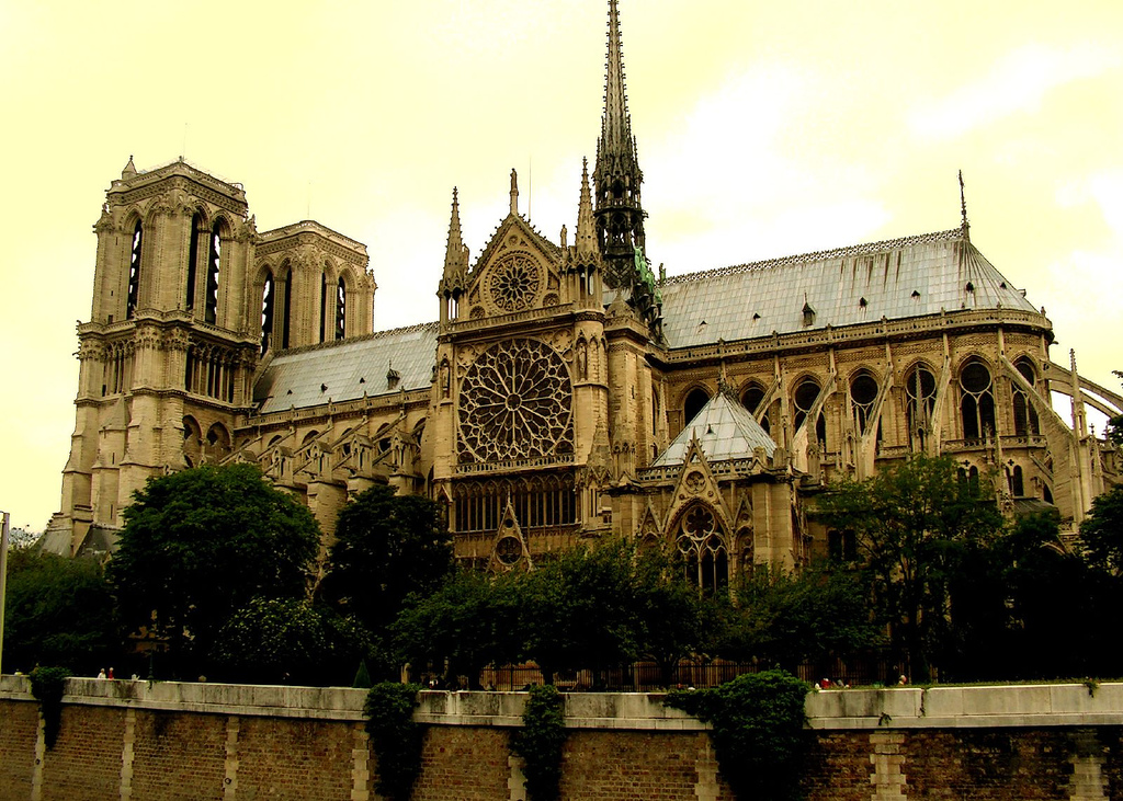 South view of Notre Dame de Paris.